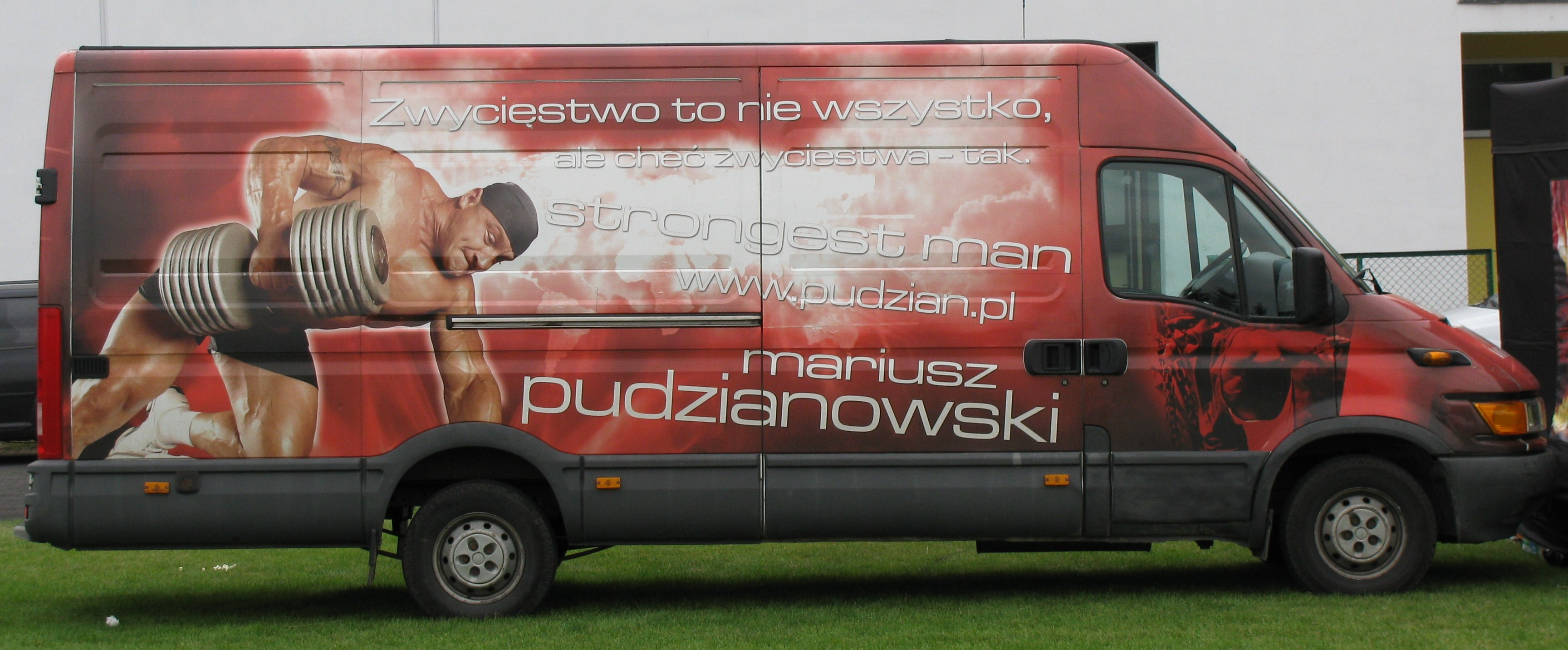 Pudzian Team half truck